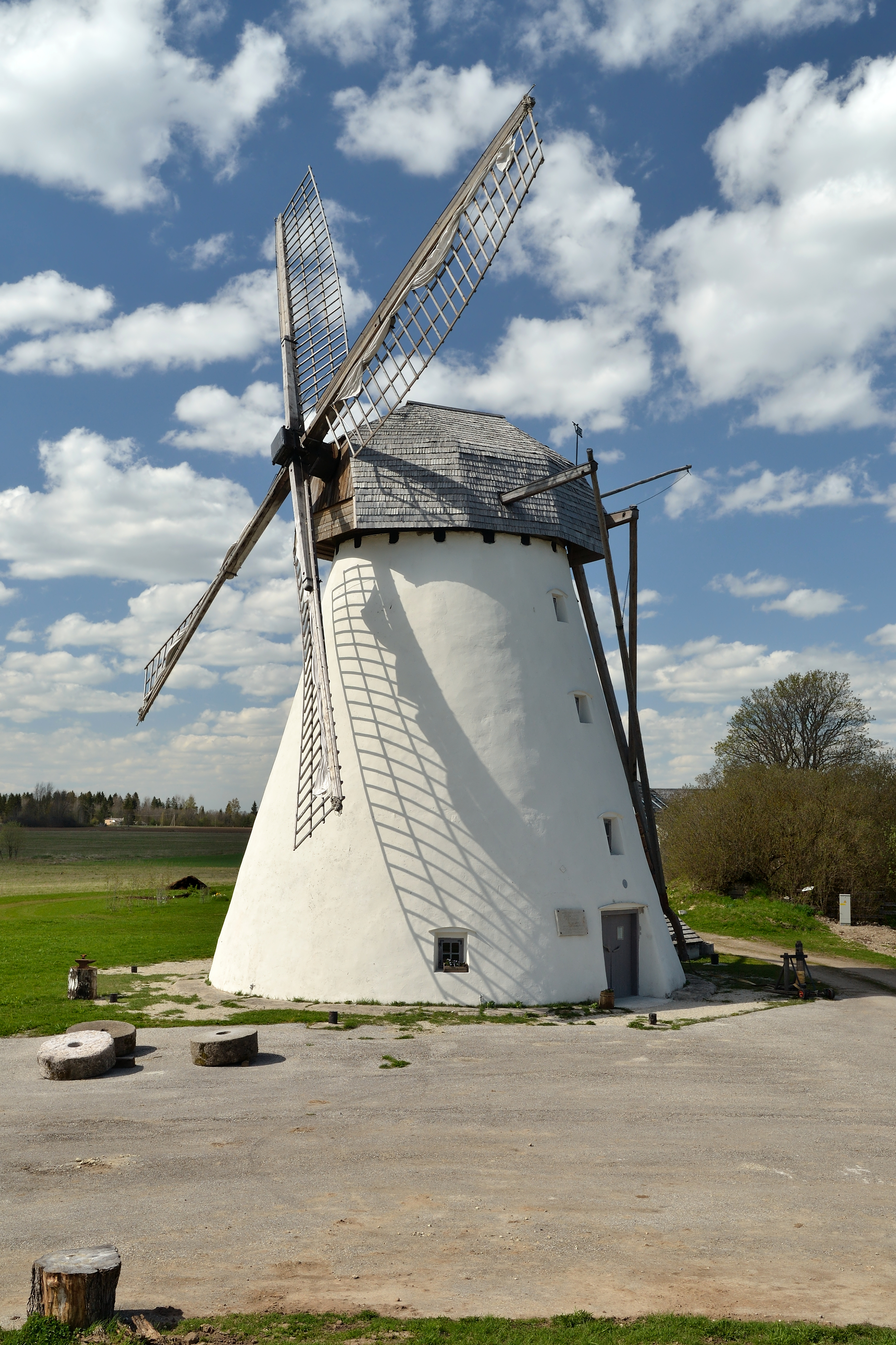 Seidla manor windmill, built in the end of the 18th century.